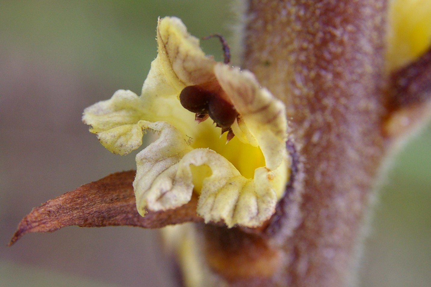 Thistle Broomrape Orobanche reticulata photographed near the foot of Ålleberg in Sweden.